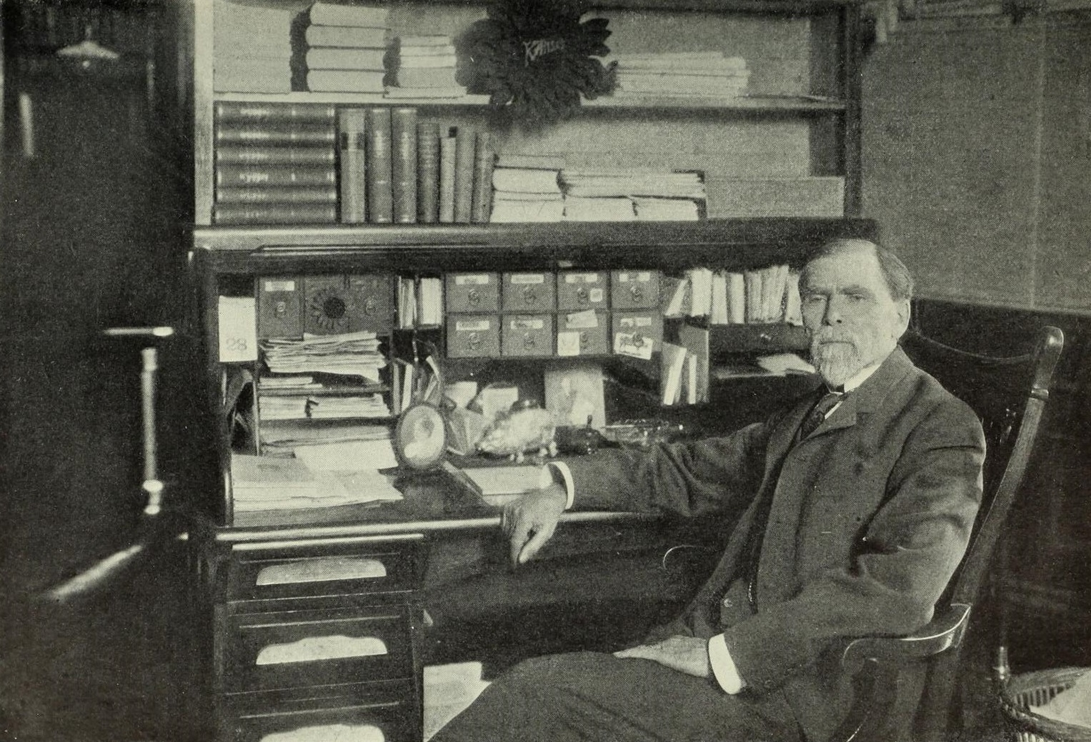 Picture of Foster Dwight Coburn